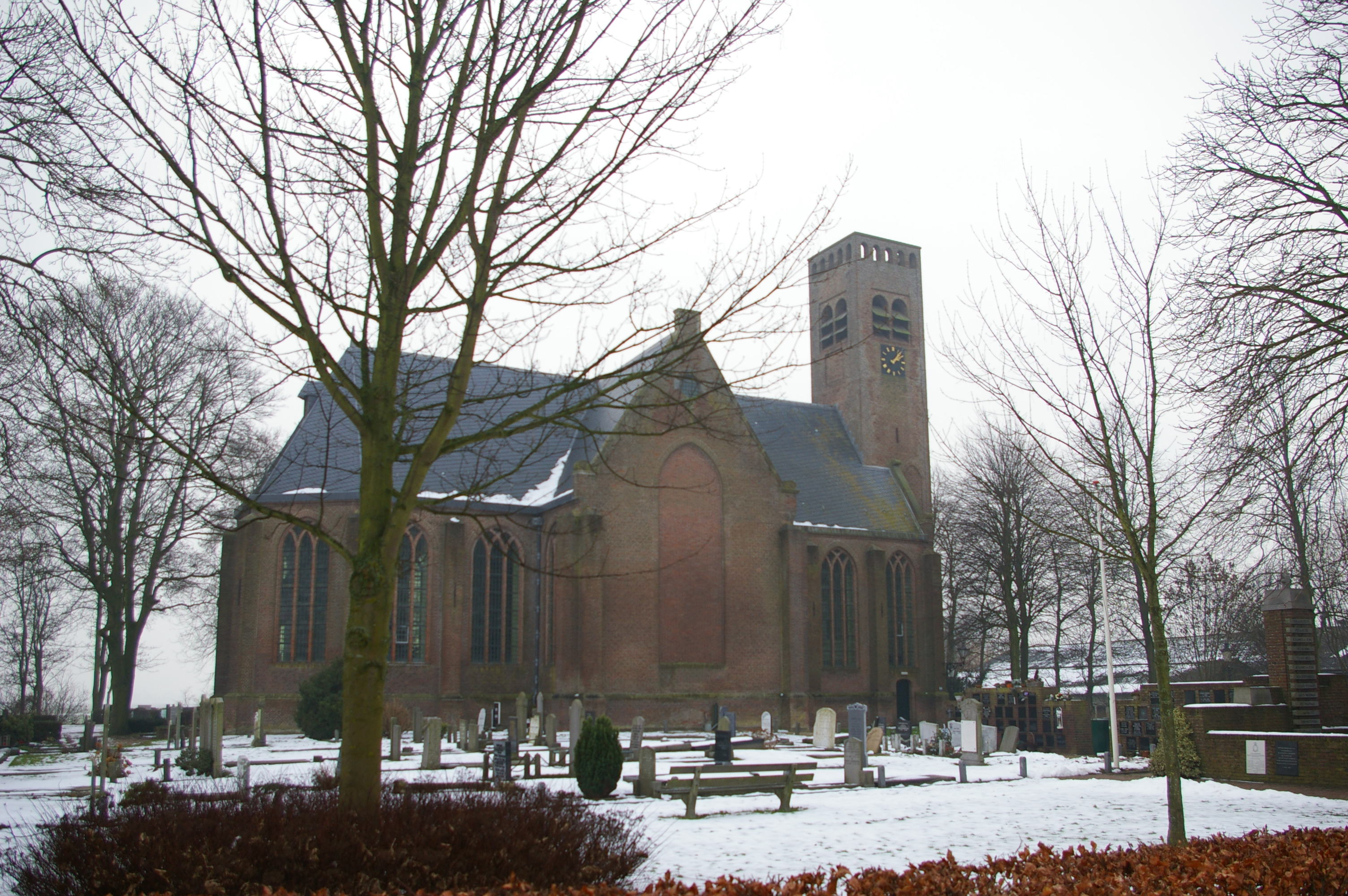 Church of Stompetoren, Schermer, the Netherlands. Literally, the village's name can be translated as "unpointed tower". Dutch listed building #33111